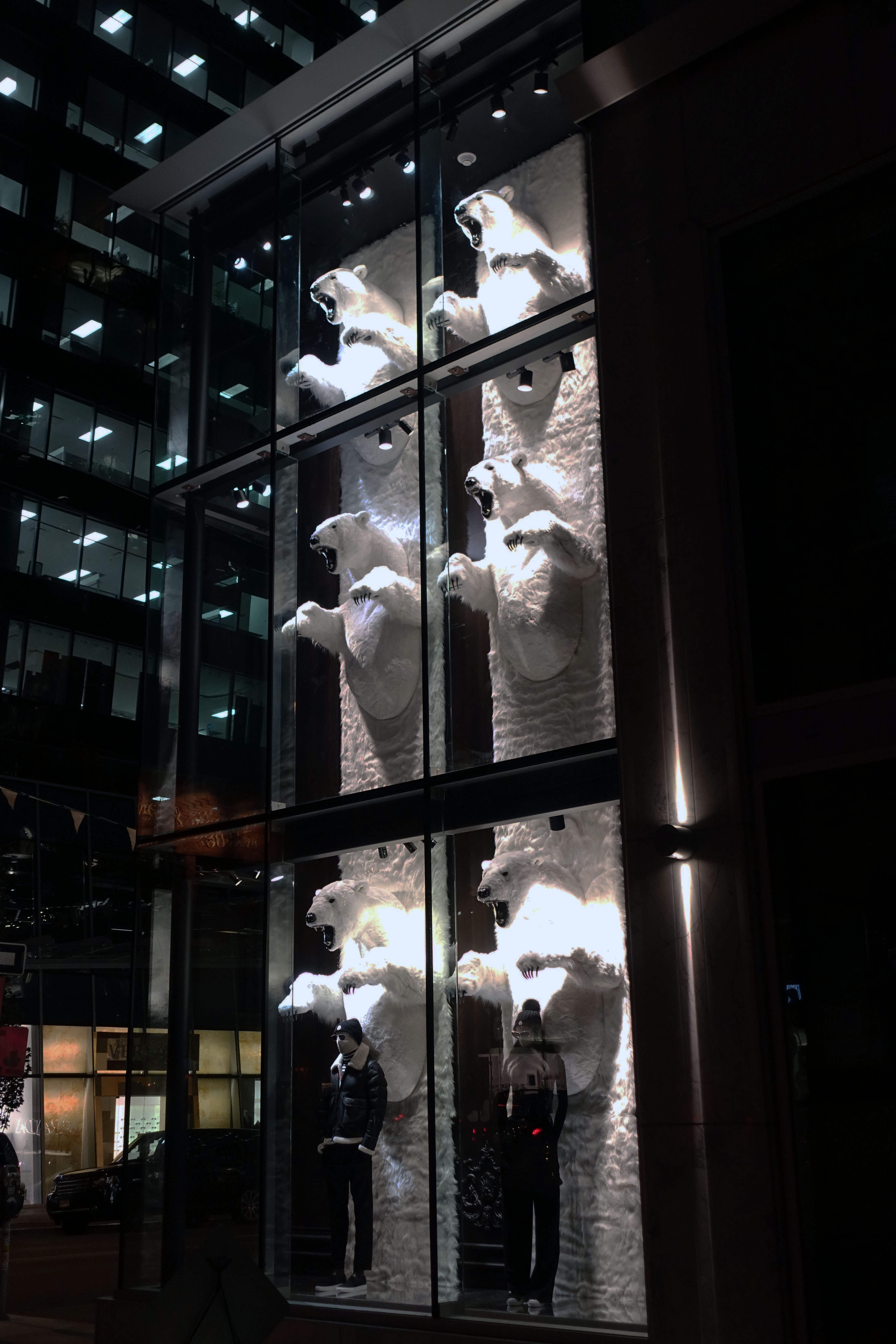 Polar bears' picnic, Moncler store, Thurlow Street